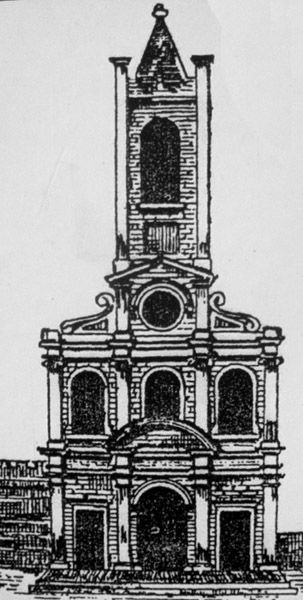 Scan of drawing of St. Nicholas church from the Gentlemen's Magazine, 1786. In public domain because of age.